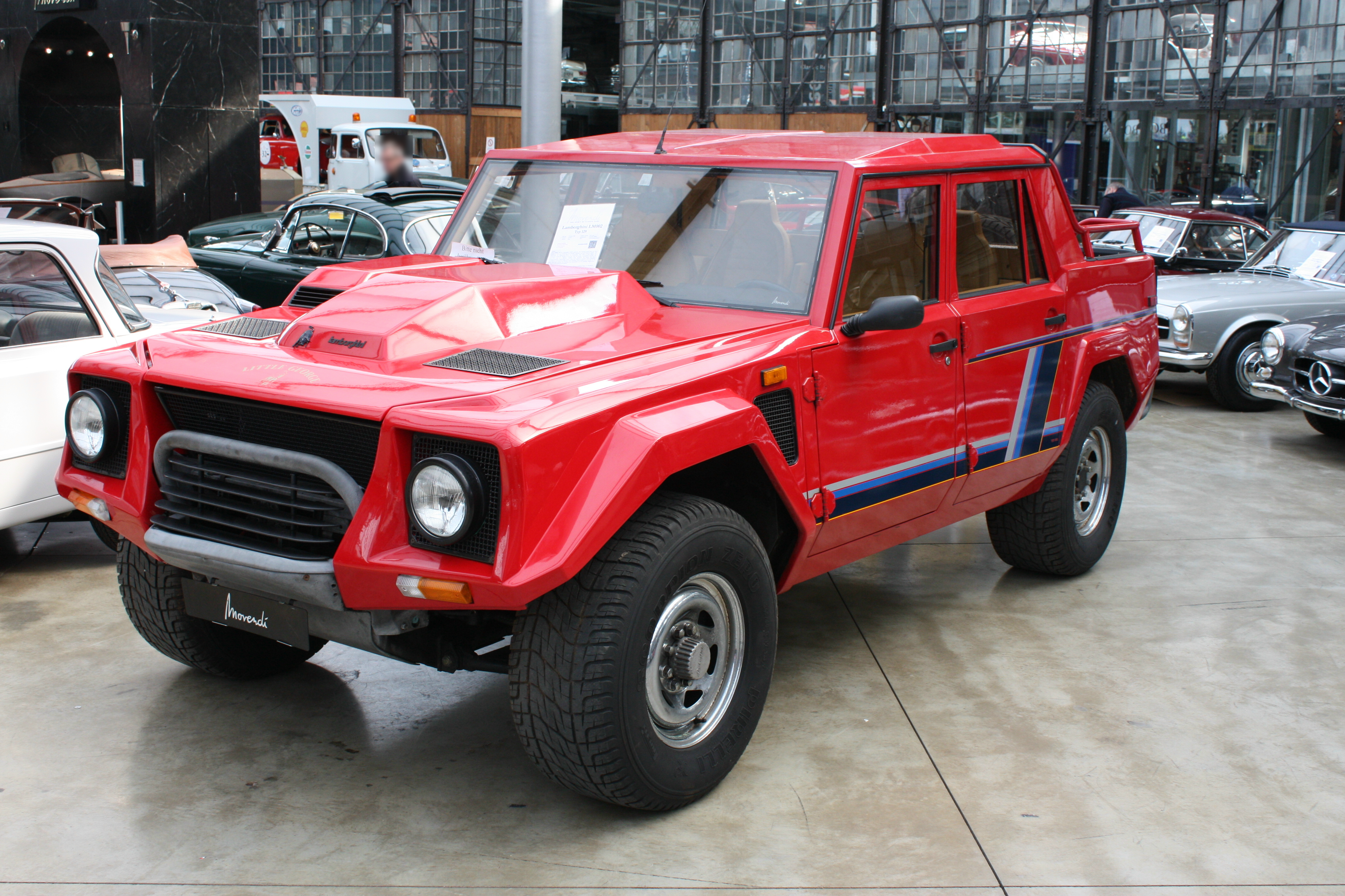 Lamborghini LM 002, 1988, seen at CLASSIC REMISE, Duesseldorf, Germany